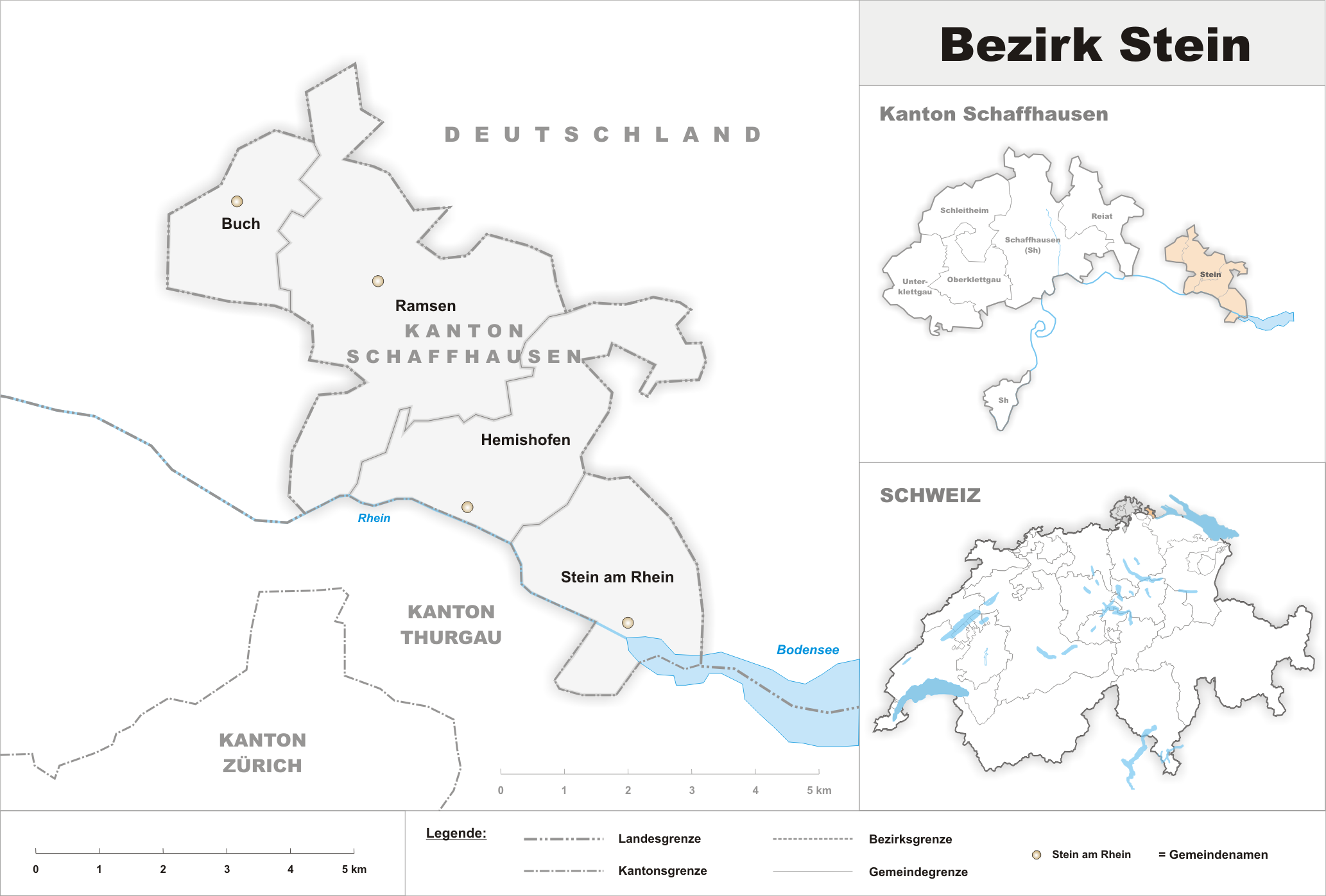 Municipalities in the district of Stein